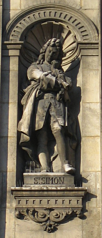 Jean-Louis-Adolphe Eude, Louis de Rouvroy, duc de Saint-Simon, French writer. Statue in the Hôtel de Ville of Paris.